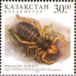 Stamp of Kazakhstan